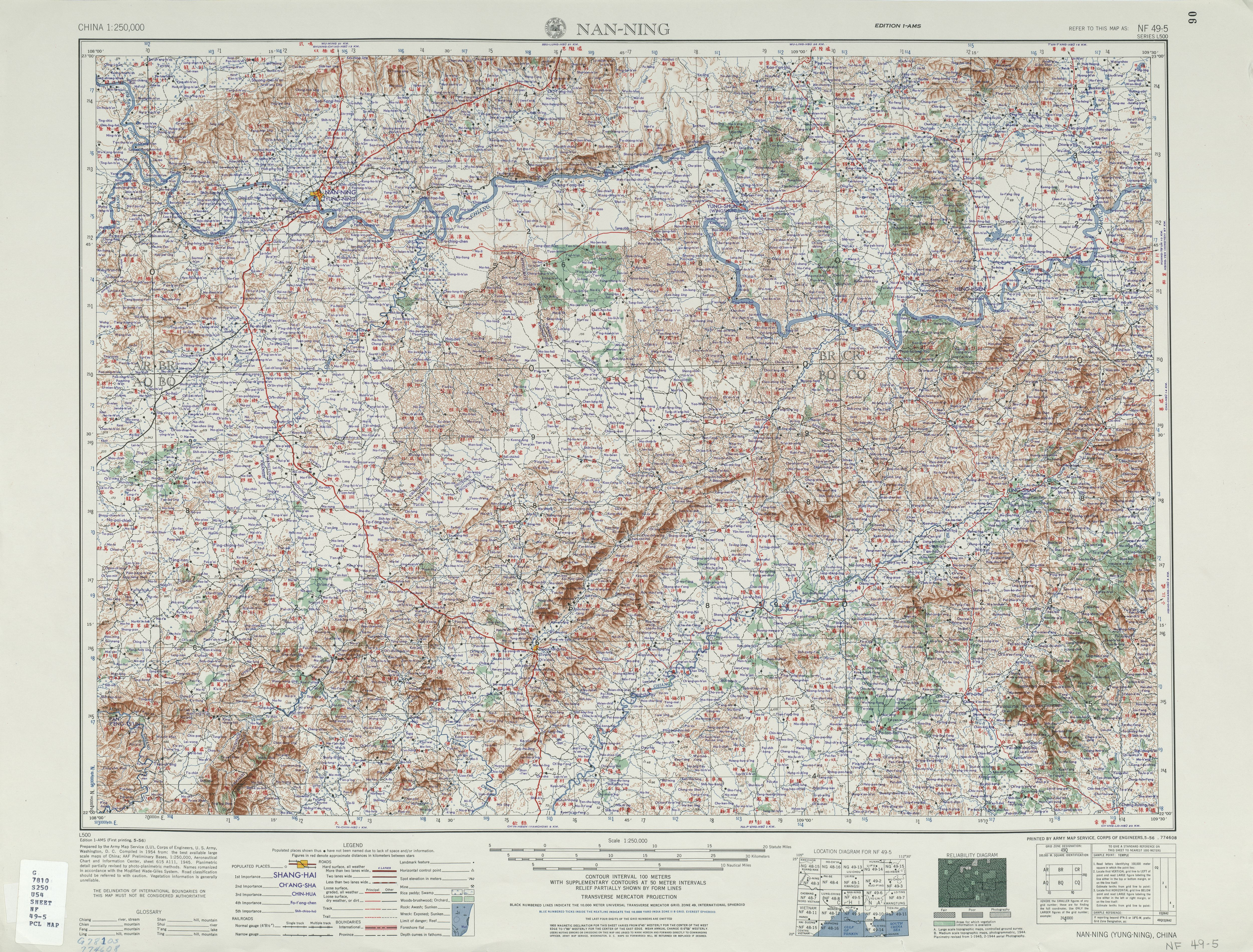 Map of Naning (Nan-ning, Yung-ning) area, Guangxi